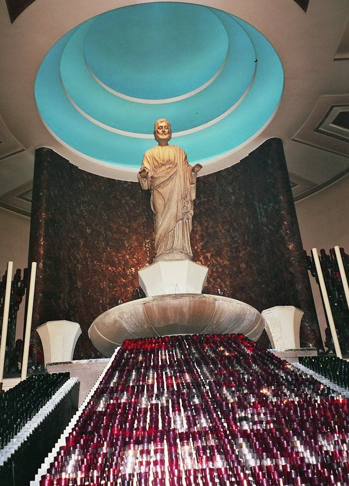 Picture of the statue of Saint Joseph in the votive chapel of Saint Joseph's Oratory in Montreal, Canada.